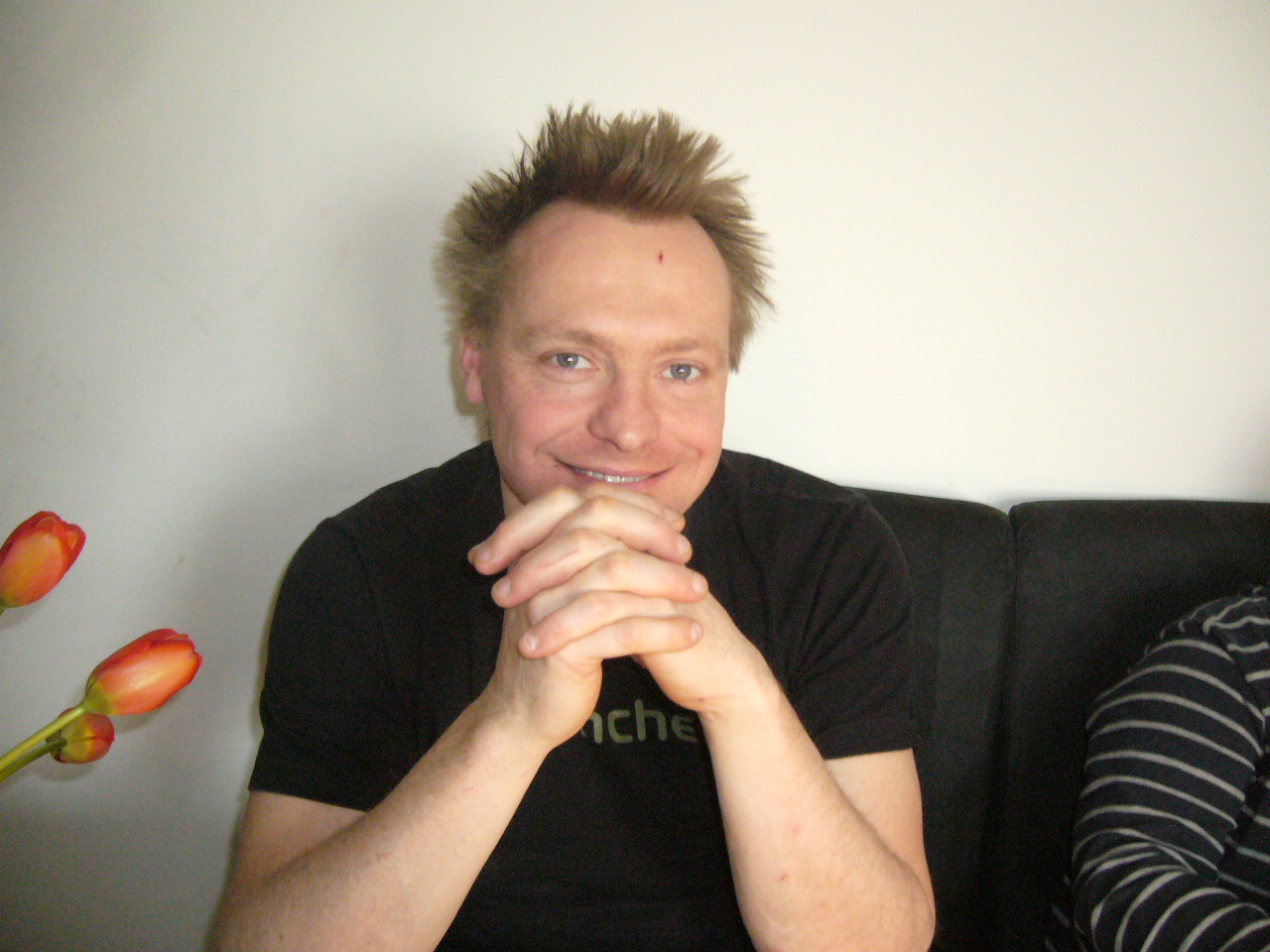 Alexander Binder beim Filmfestival Leipzig